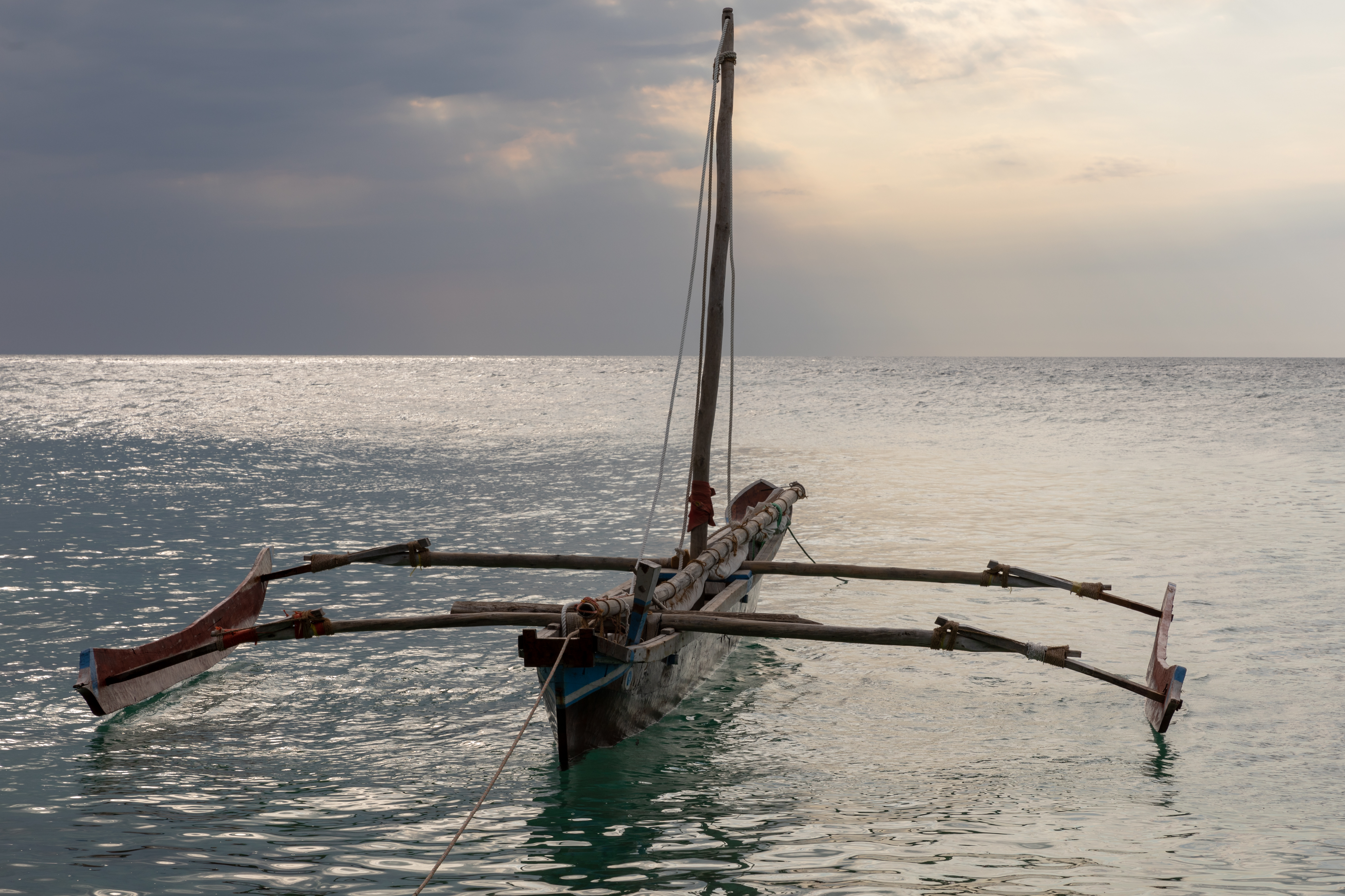 A sailing boat. Found on Chumbe Island, Tanzania.